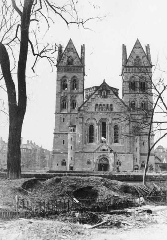 Catholic Sacred Heart of Jesus Church, destroyed on 6 November 1944, Coblenz. Picture shows; A view of the Catholic Sacred Heart of Jesus Church of Coblenz, which may appear to be in very good shape, but which is really just a shell, since its destruction on 6 November 1944 by an Allied air raid. The steeple of this church ruin was a spo from which German snipers fired in the G.I.'s in 1945.